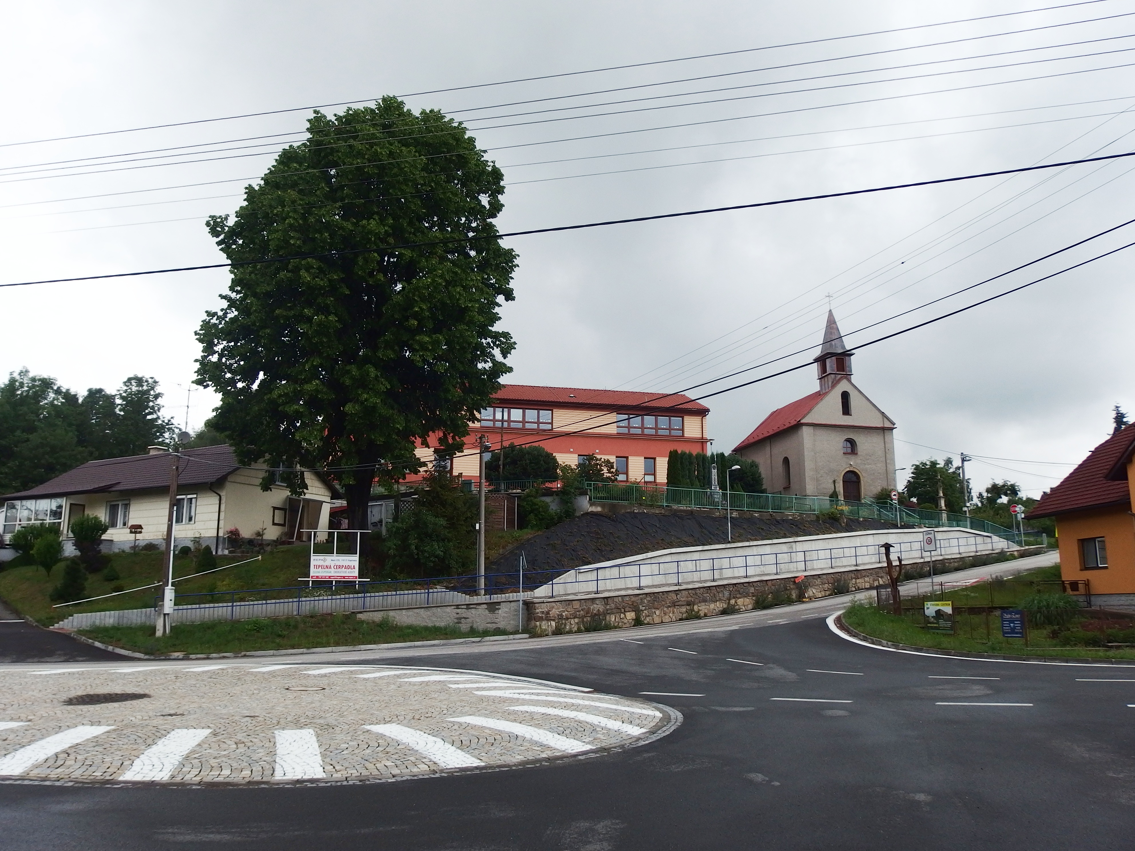 Kopřivnice, Nový Jičín District, Czech Republic, part Mniší.